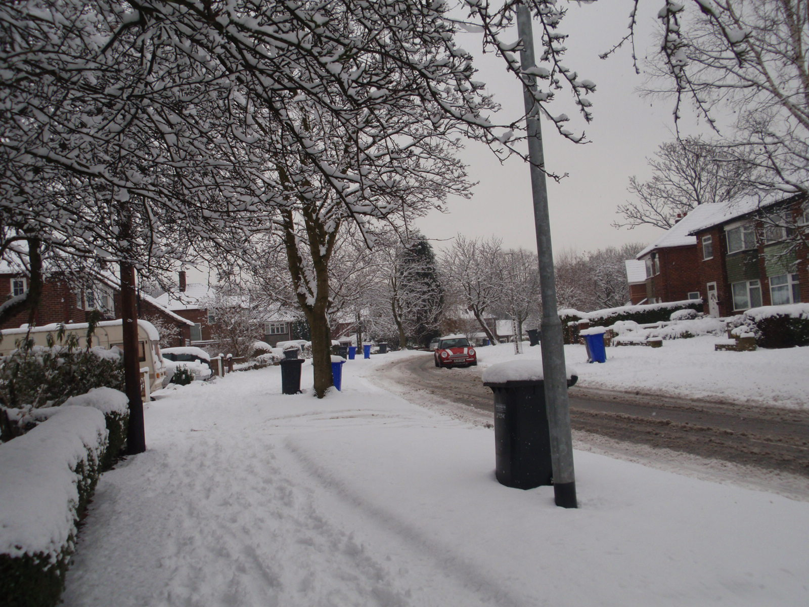 Street under snow, south Manchester